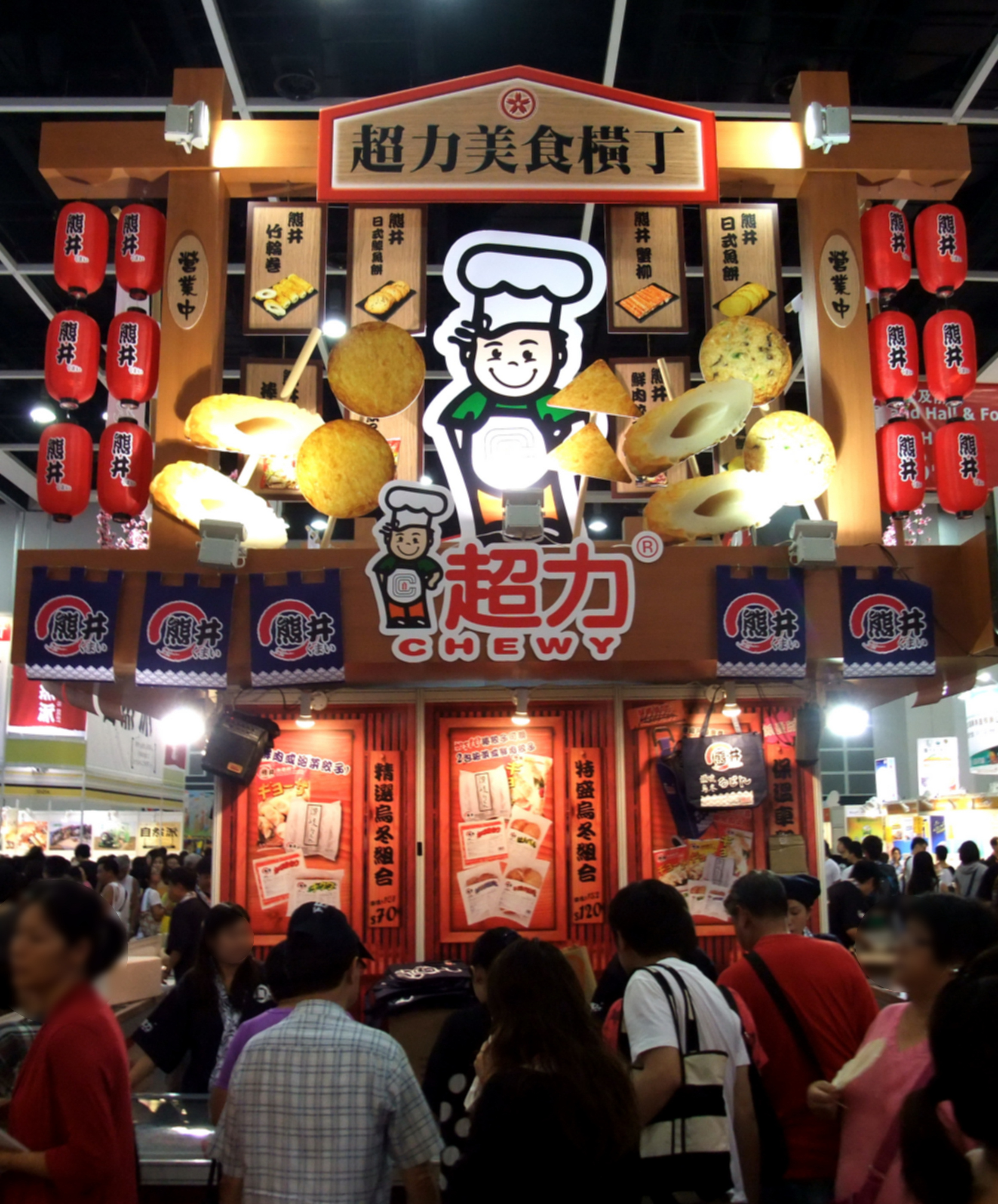 A Chewy International Foods Ltd. booth at the HKTDC Food Expo 2011.